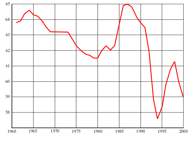 Graph of the life expectancy at birth (male) in RSFSR and RF 1960-2000